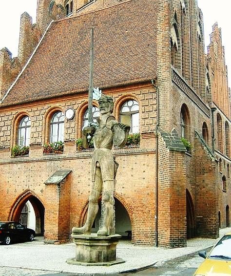 The Roland-Statue in front of the Church of St. Mary (Marienkirche)